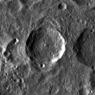 Lane lunar crater - LROC image